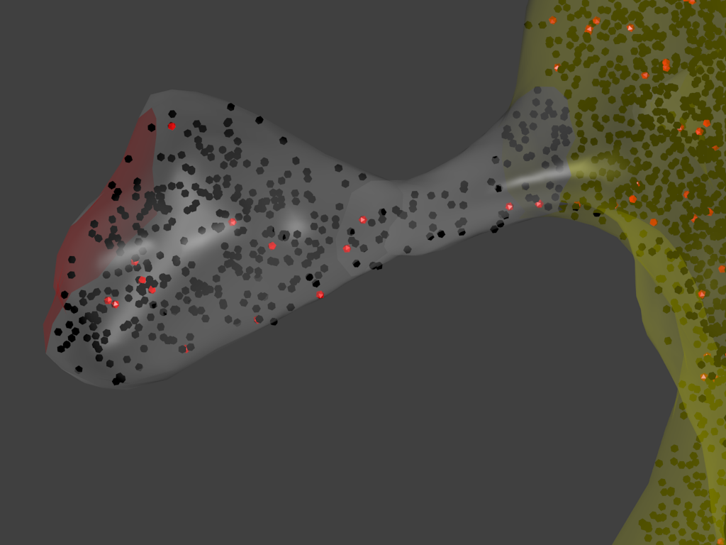 blender].